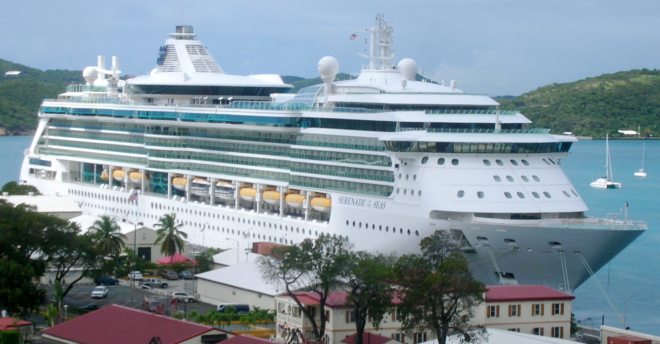 Royal Caribbean International's cruise vessel Serenade of the Seas (a Radiance Class ship) docked in Long Bay, Charlotte Amalie, Saint Thomas, US Virgin Islands